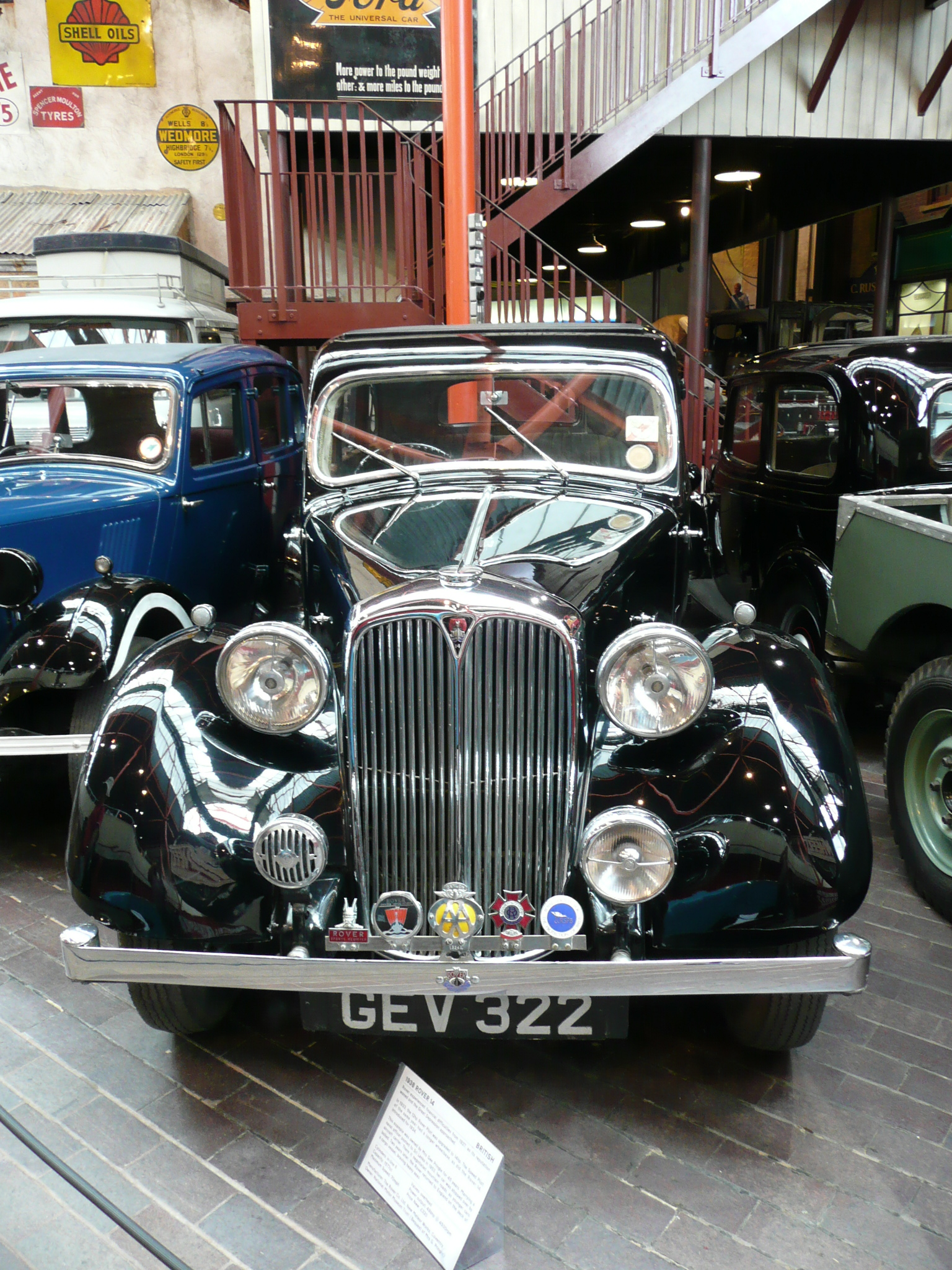 1938 Rover 14, National Motor Museum in Beaulieu.